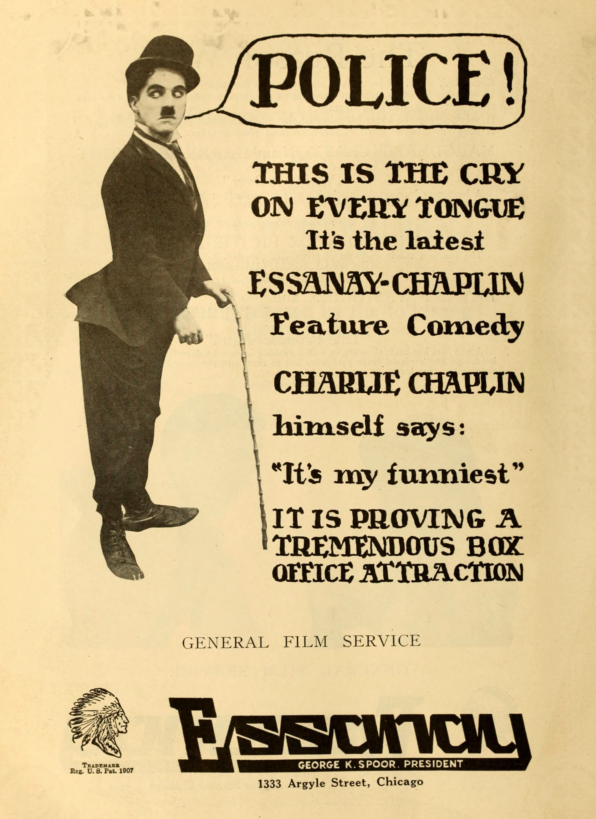 Advertisement in The Moving Picture World for the American comedy film Police (1916).